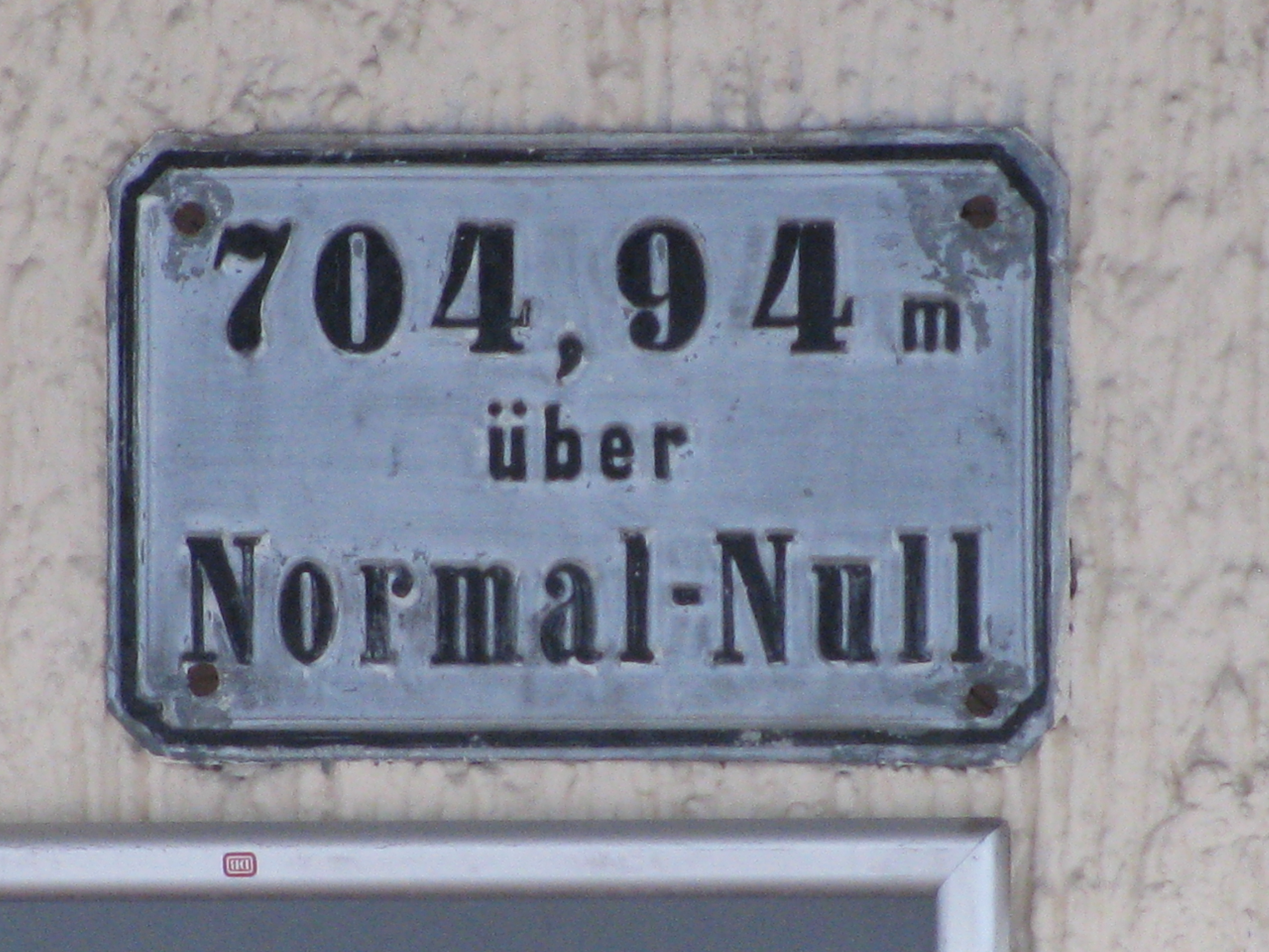 Germany - Bavaria - district Lindau (Bodensee) - Röthenbach (Allgäu): station, altitude sign